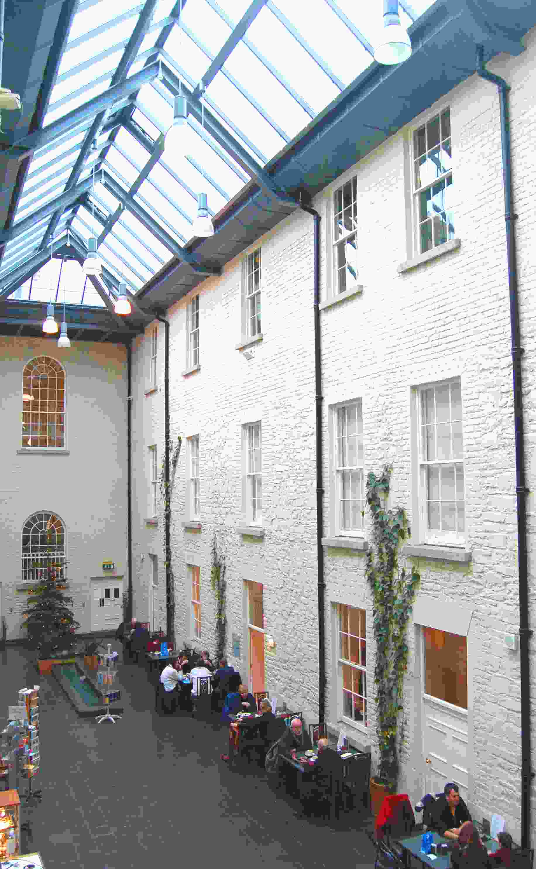 Atrium.